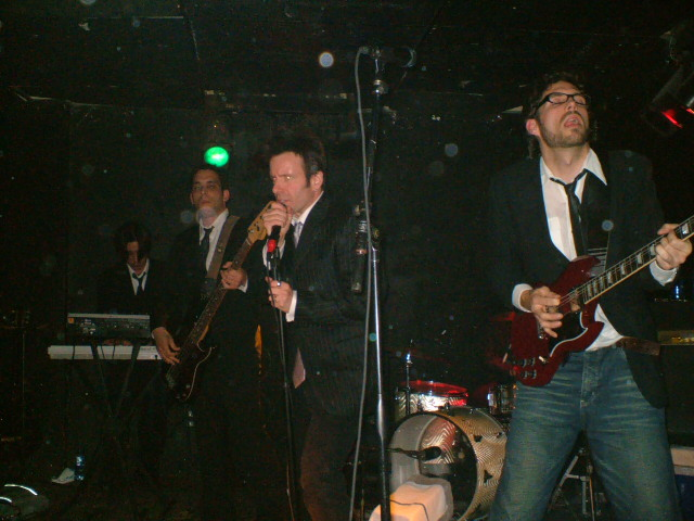 Hugh Dillon Redemption Choir May 02, 2005 in London